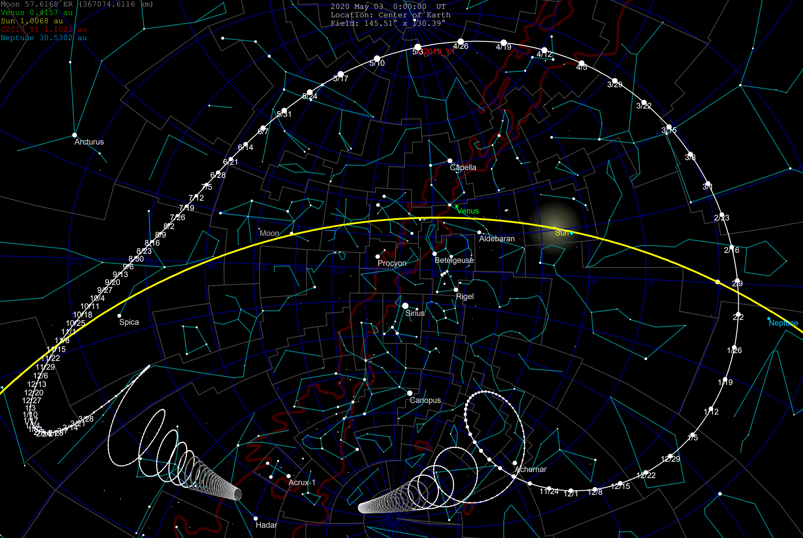 Comet C/2019 Y1 (ATLAS) sky path